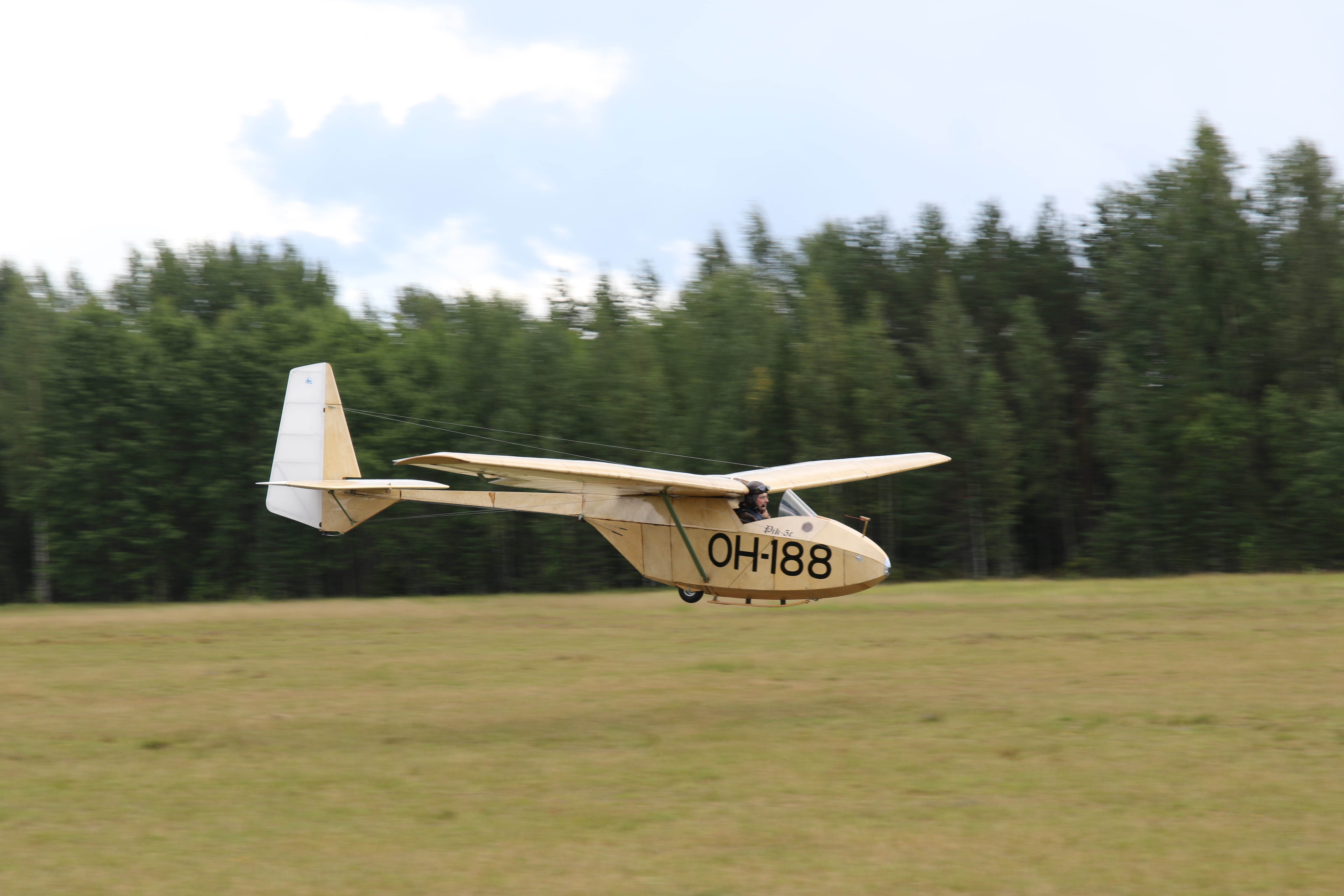 VGC-Rally in Räyskälä airfield, August 2016. Finnish designed glider PIK-5C (OH-188) is flown by Harri Mustonen.